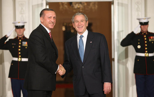 U.S. President George W. Bush welcomes Turkish Prime Minister Recep Tayyip Erdogan to the White House, Washington D.C.